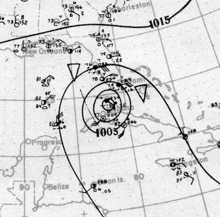 Surface analysis of the 1919 Florida Keys hurricane at peak intensity as a Category 4 hurricane-equivalent in the Florida Straits on September 10, 1919.